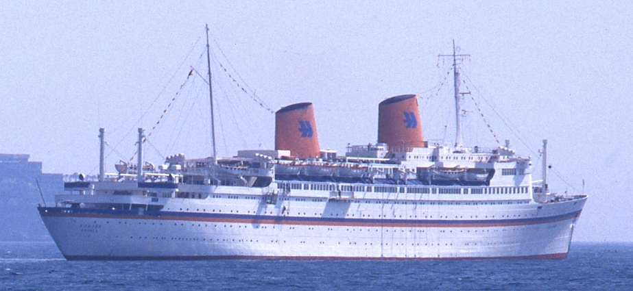 MS Europa Taormina/Sicilia/Italia 1979